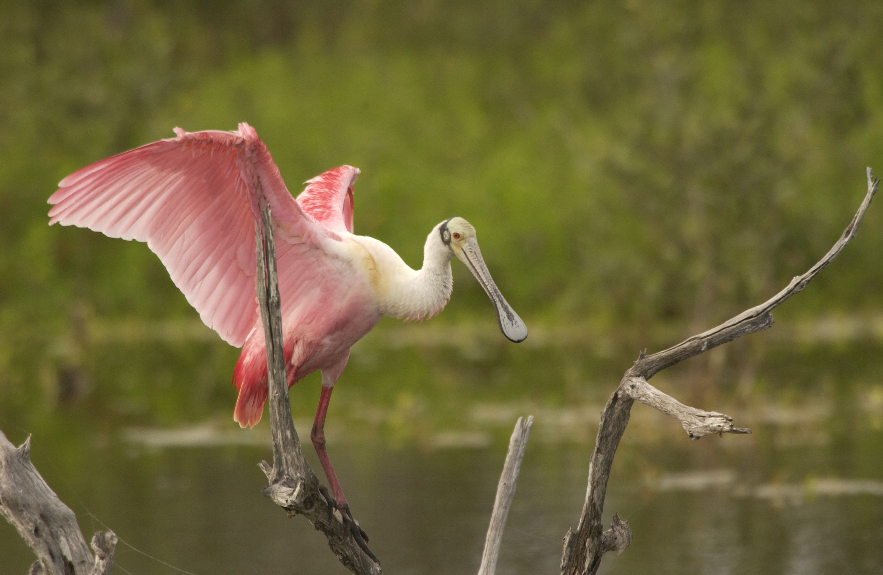 Roseate Spoonbill, Platalea ajaja